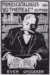 Fondscatalogus van W.j. Thieme & Cie. Zutphen - Even Opzoeken 1908